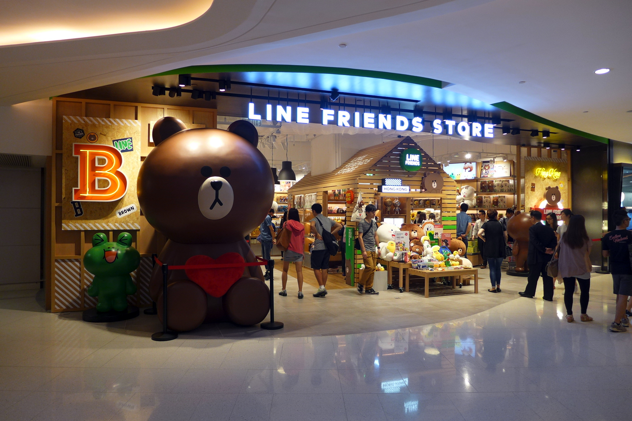 LINE Friend Store in Hysan Place